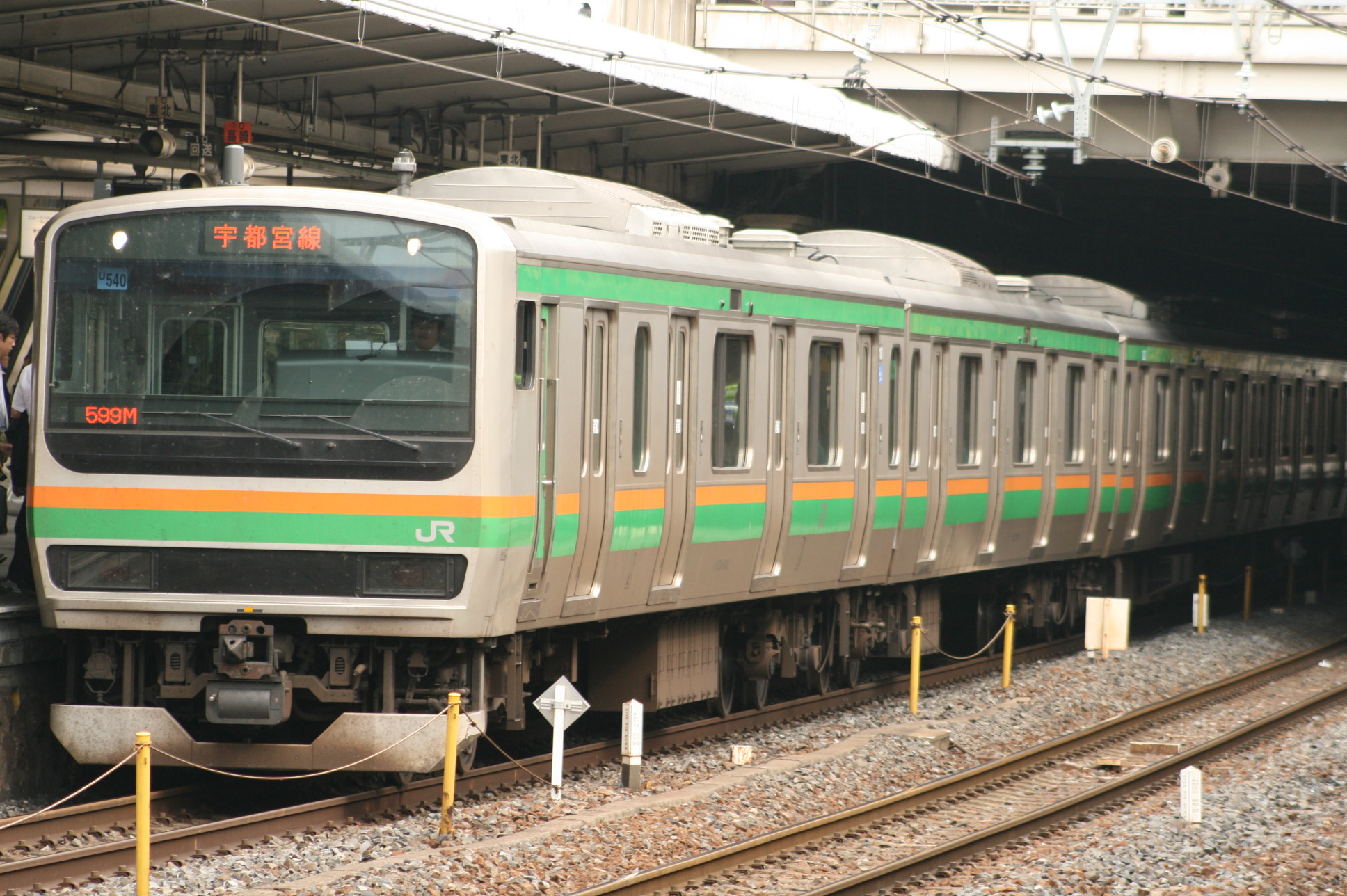 JR East E231-1000 Train U540, serving Utsunomiya Line (Taken at Omiya Station)